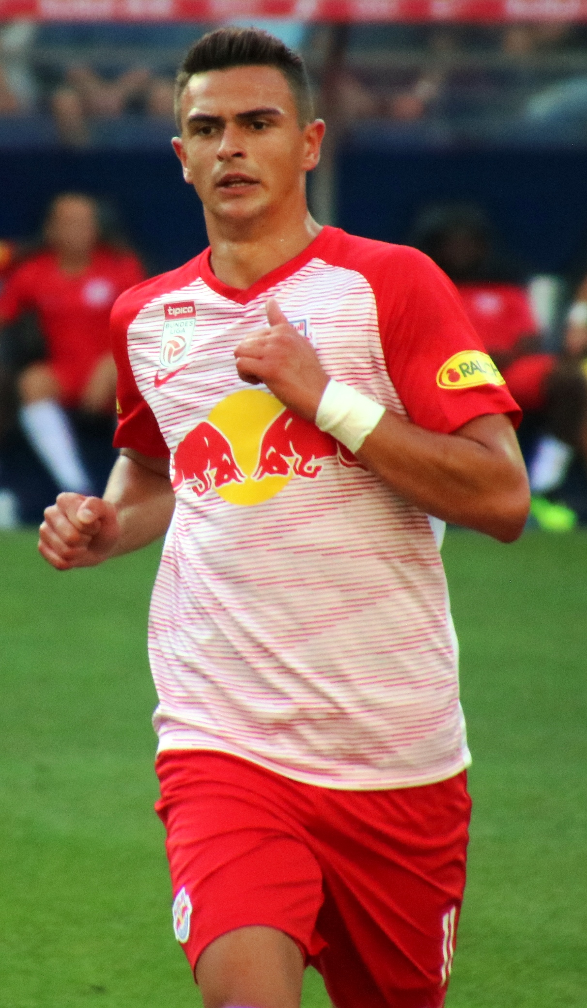 Austrian Bundesliga 1st round match 2018-19 season